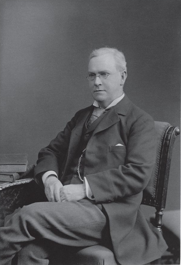 Horace Lamb upon his admission to the Royal Society in 1885.